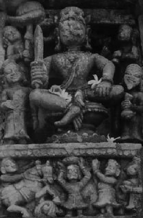 Gajapati Kapilendra Deva Routray depicted holding a sword and seated in a dominating Lakulisha position at Kapileswar Temple in Old Bhubaneswar